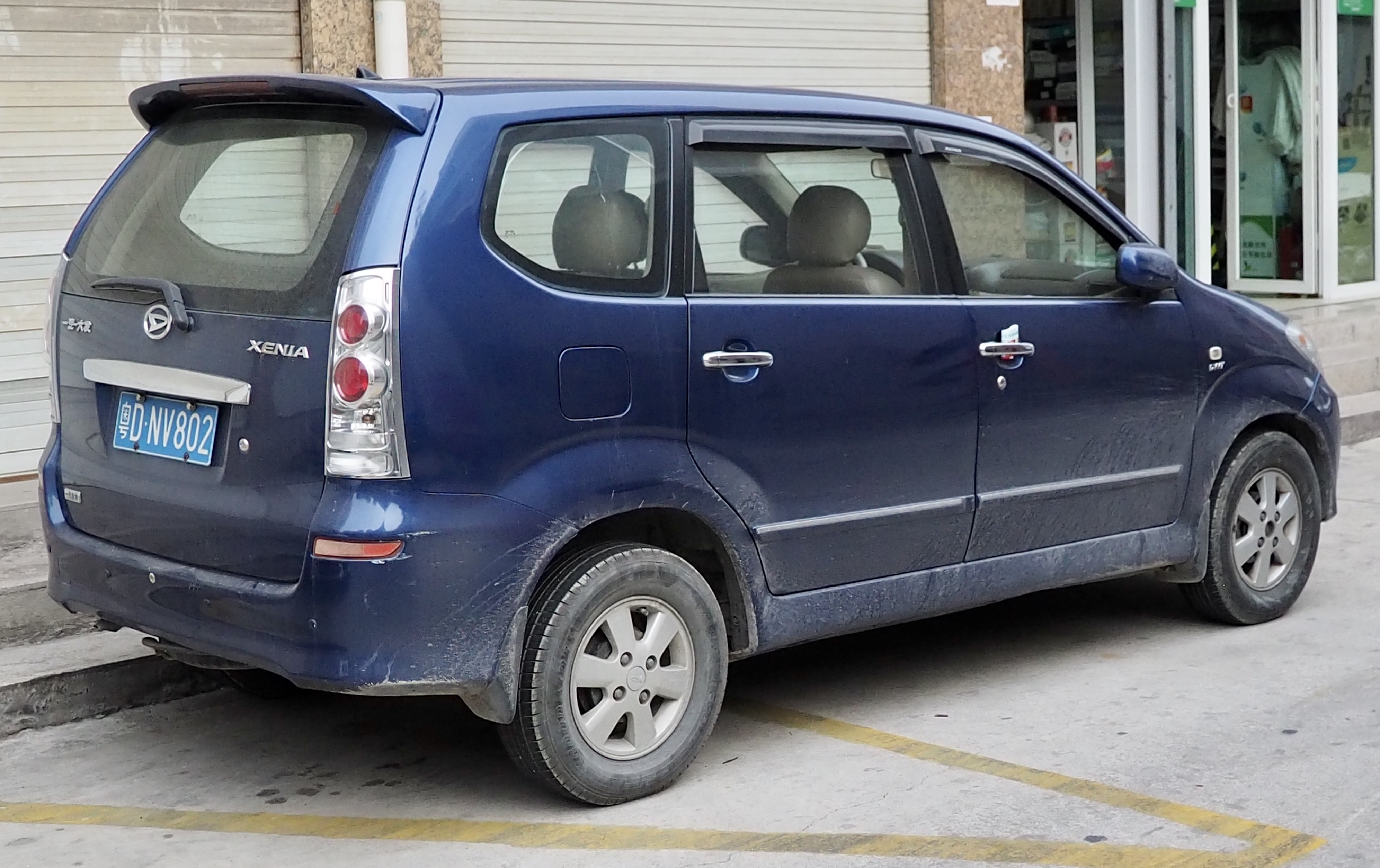 A 2005 FAW-Daihatsu Xenia photographed in Shantou, Guangdong Province, China. 中文（中国大陆）: 一辆2005年的一汽大发森雅，拍摄于中国广东省汕头市。